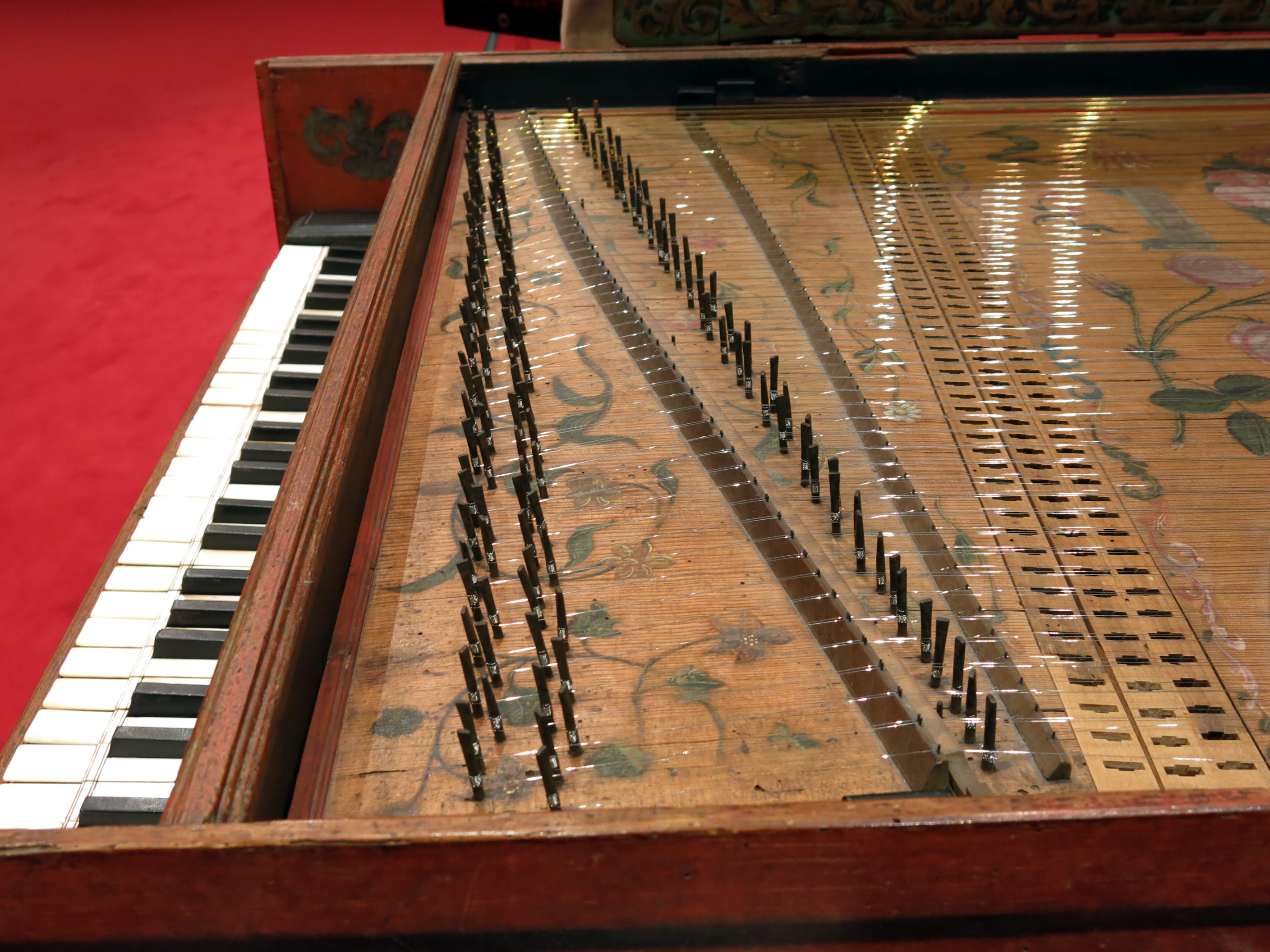 Harpsichord, Carl Conrad Fleischer